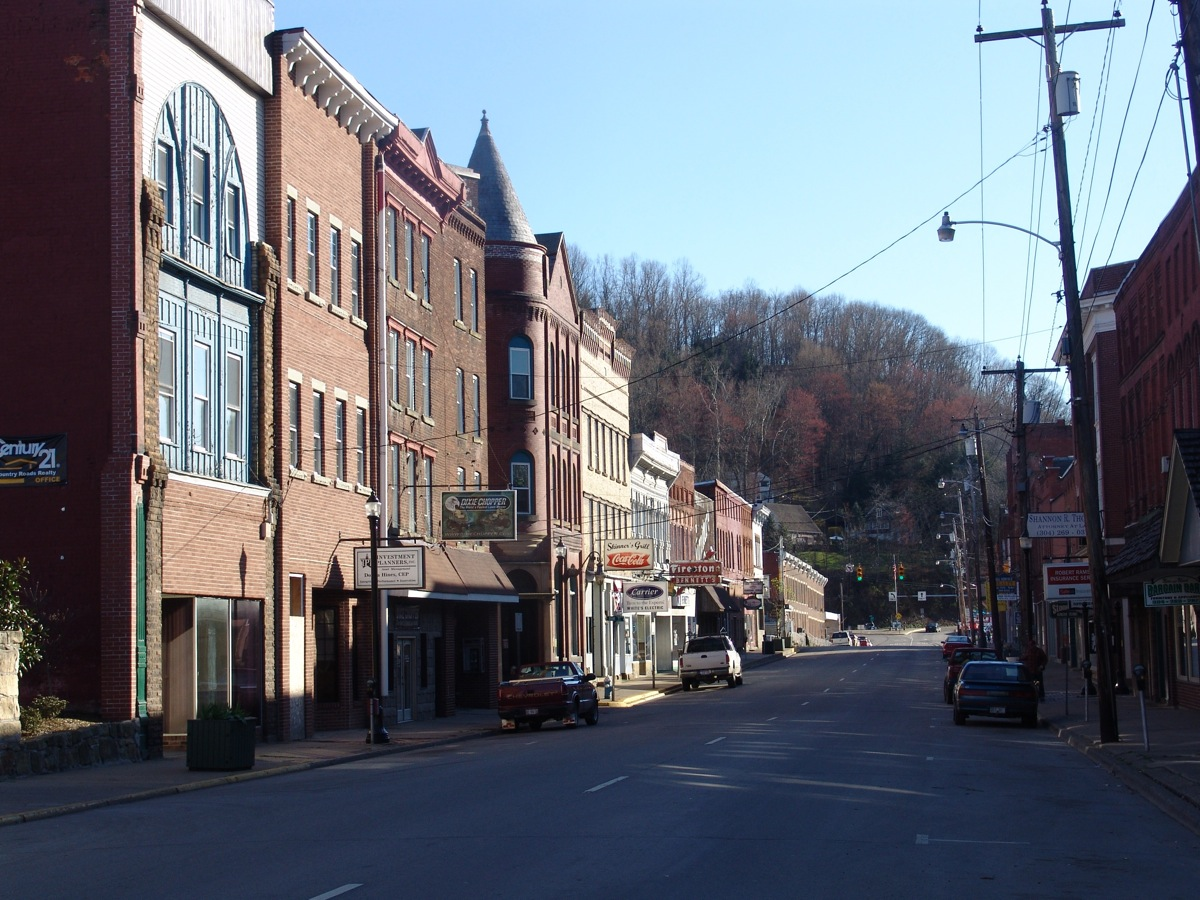 Weston Downtown (Rt 19, heading south)